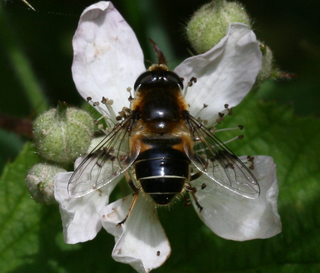 a female Eristalis rupium